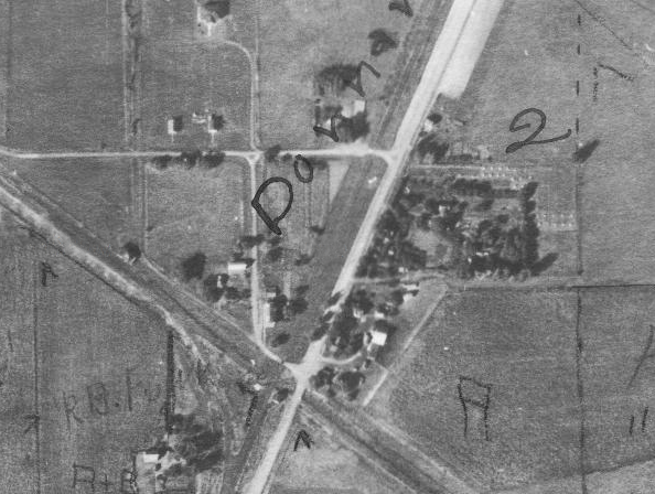 A 1930s USDA aerial photo of central Donnan, Iowa